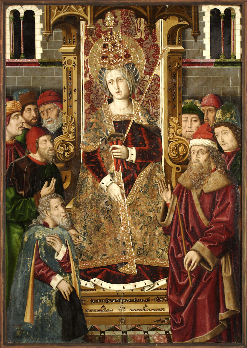 Altarpiece of the Holy Cross (Retablo de la Santa Cruz); Church of Blesa, Aragon, Spain. This panel shows Saint Helena enthroned among the Jews. Helena wears a trigregnum, symbolizing that she represents the Catholic Church in her quest for the True Cross. Spanish-gothic style; oil on wood, c.1481-1487.